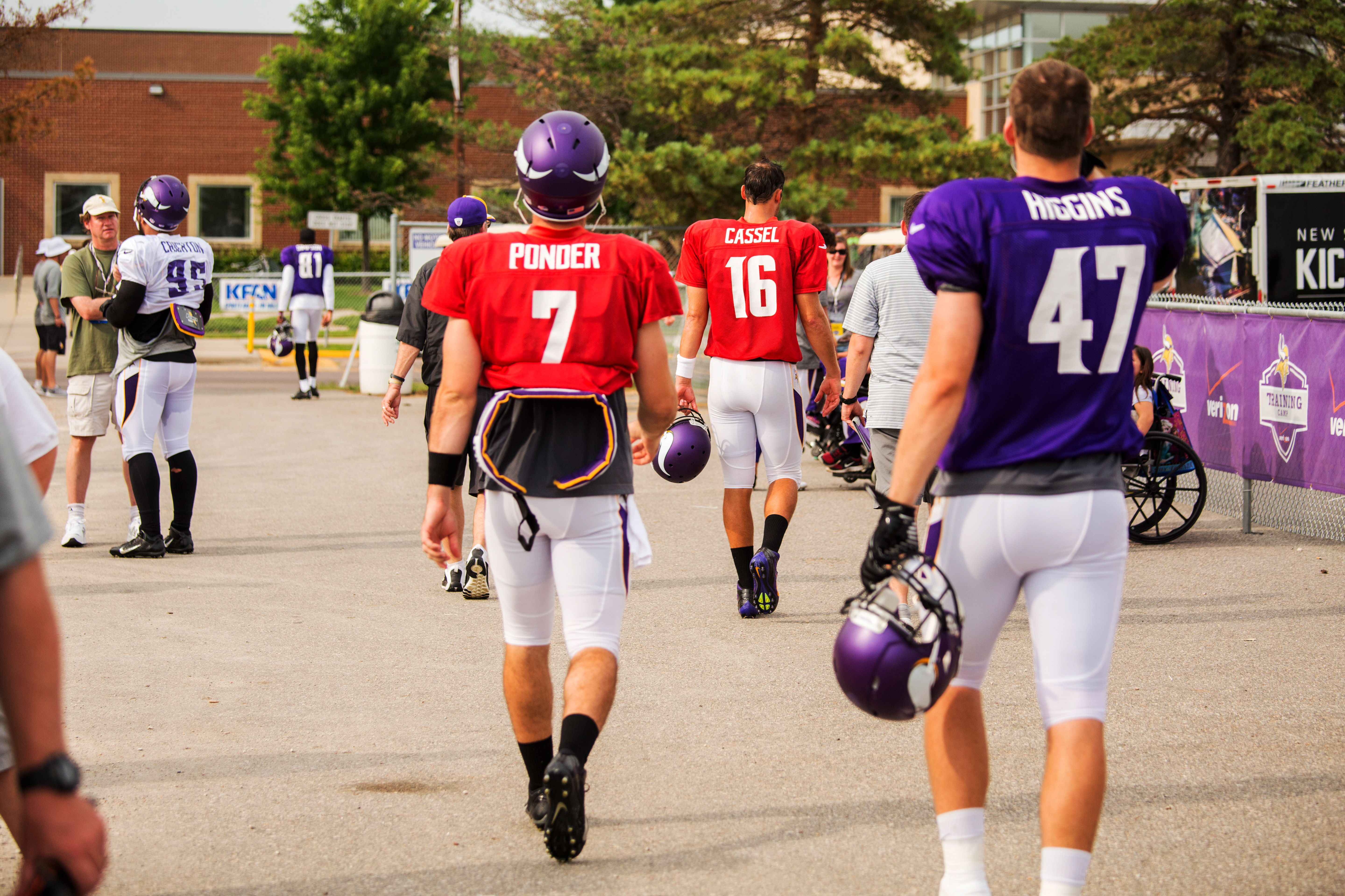 Minnesota Vikings quarterback Christian Ponder during 2014 training camp